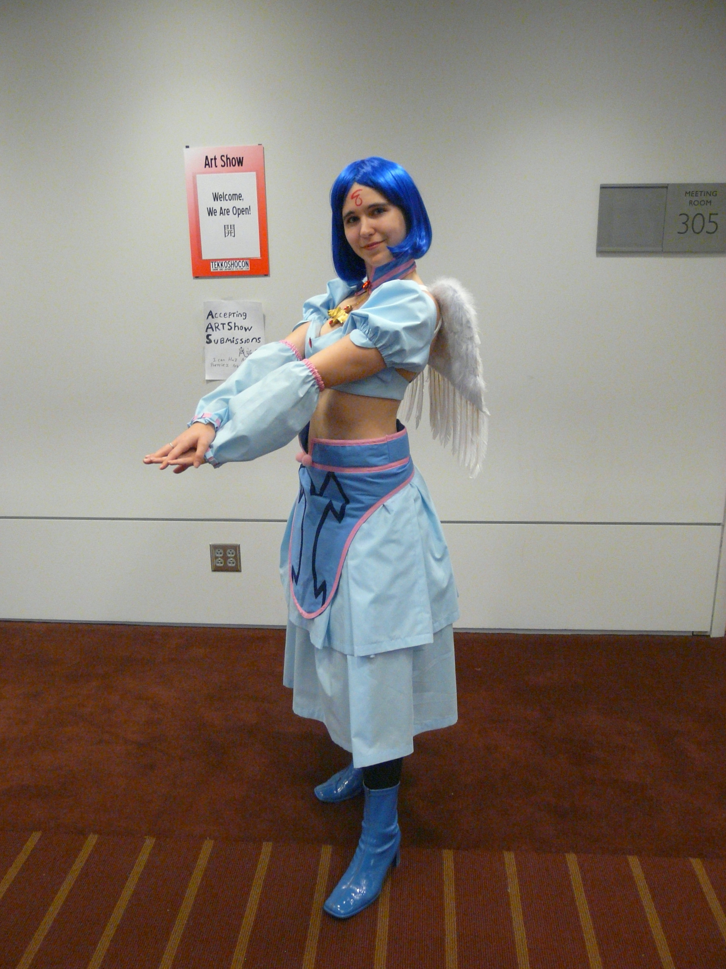 Tekkoshocon at David L. Lawrence Convention Center (2010)